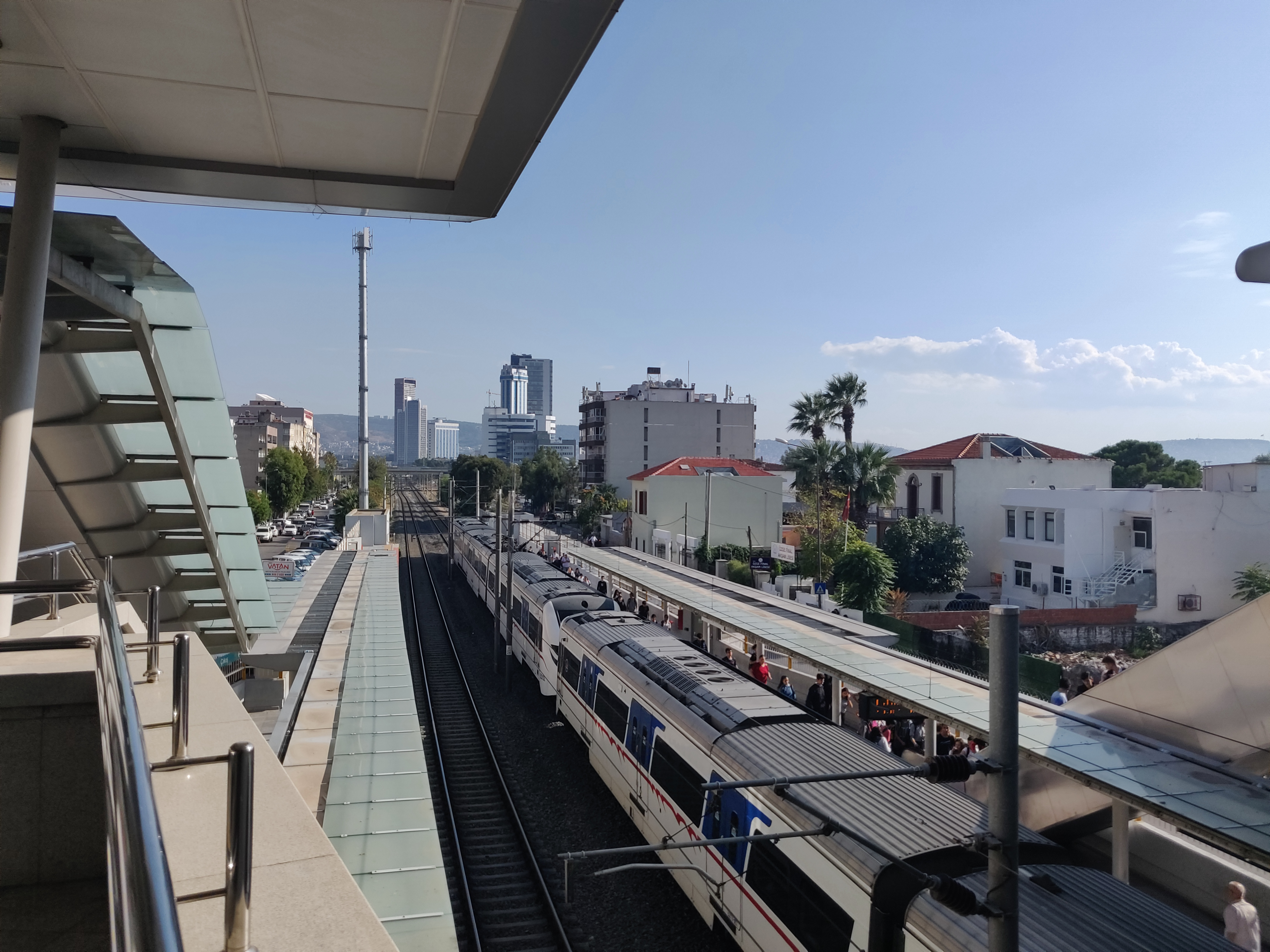 Bayrakli railway station.